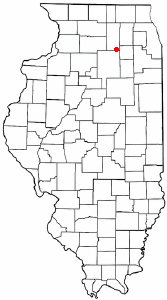 Category:Illinois city locator maps